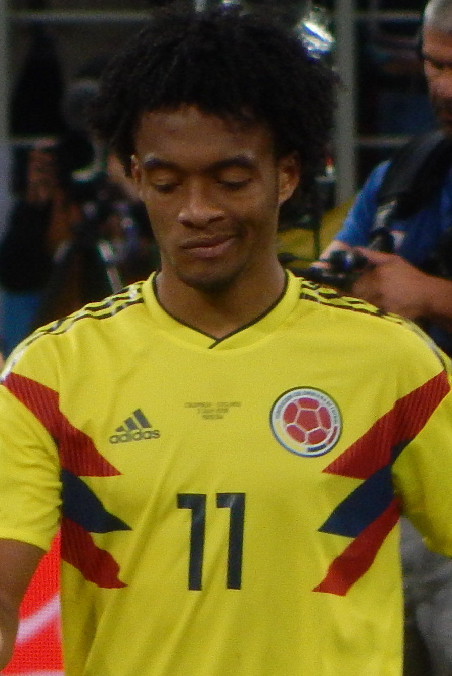 FIFA World Cup 2018, Round of 16, Colombia vs. England. Juan Cuadrado before his penalty kick during the shoot-out